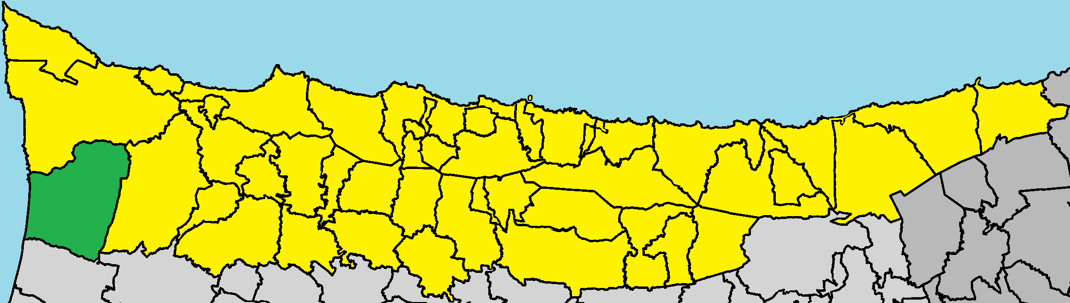 Agia Eirini Keryneias in Kyrenia District (de jure).